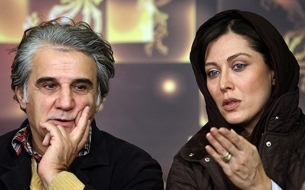 Mahtab Keramati, The Fourth Child news conference (1391112019041728)